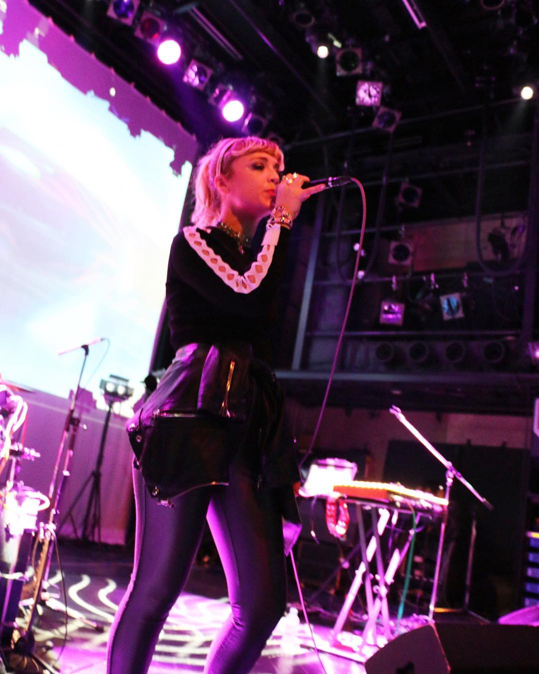 Danz performing at WWW club in Tokyo, Japan in February 2016.